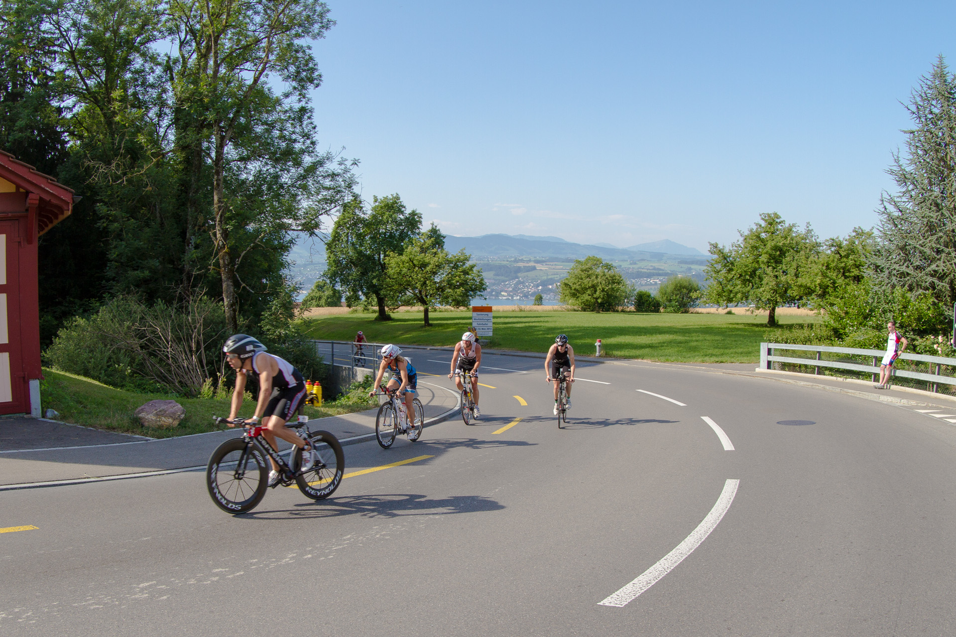 Bike Course near Uetikon at Ironman Switzerland 2013